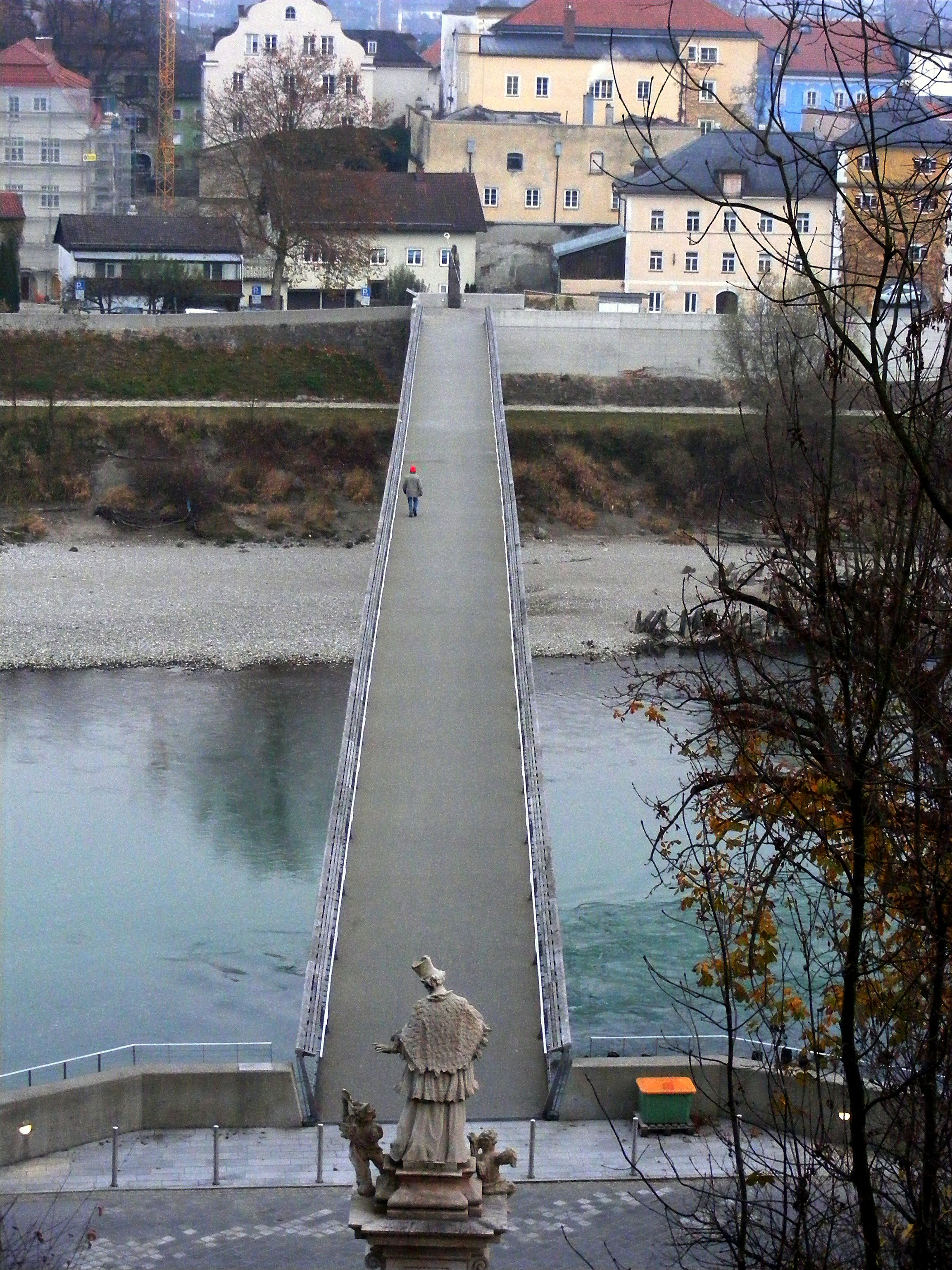 footbridge "Europasteg" between Oberndorf (state of Salzburg, Austria) and Laufen (Bavaria, Germany), view to Laufen